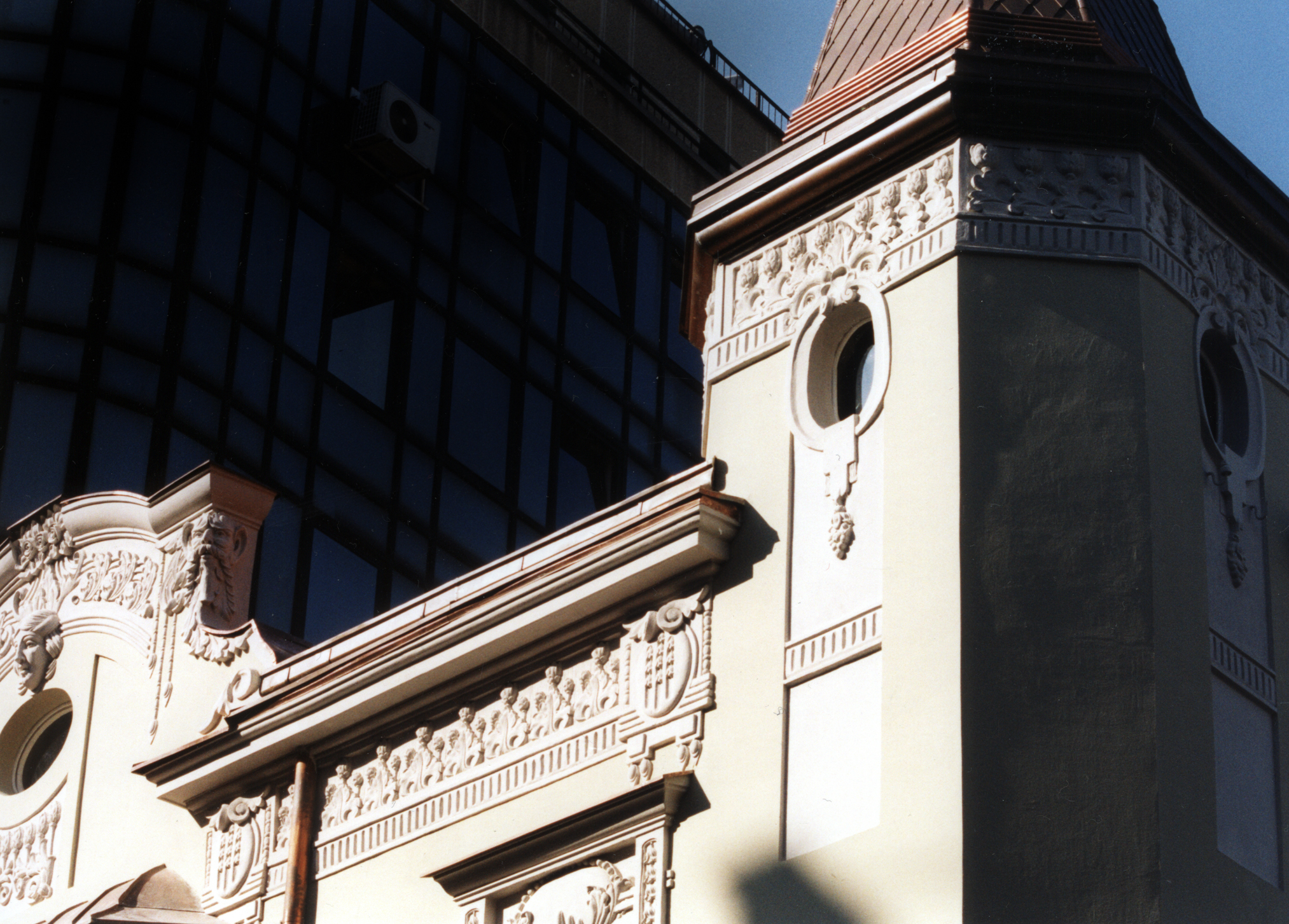 Art Nouveau Style, circa 1906, at 16 Obilicev Venac Street, Belgrade, Serbia